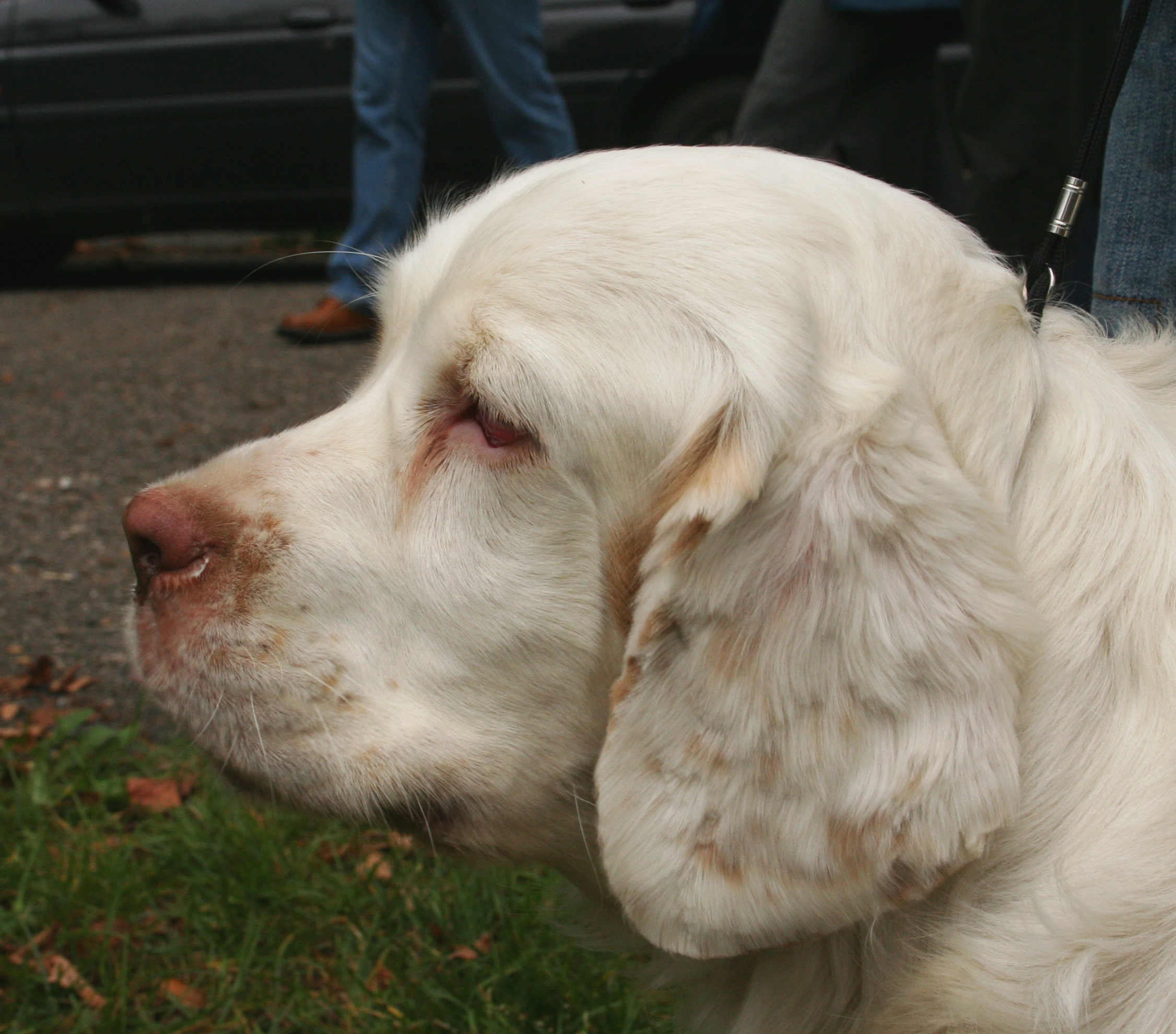 Clumber Spaniel during show of dogs in Rybnik - Kamień, Poland